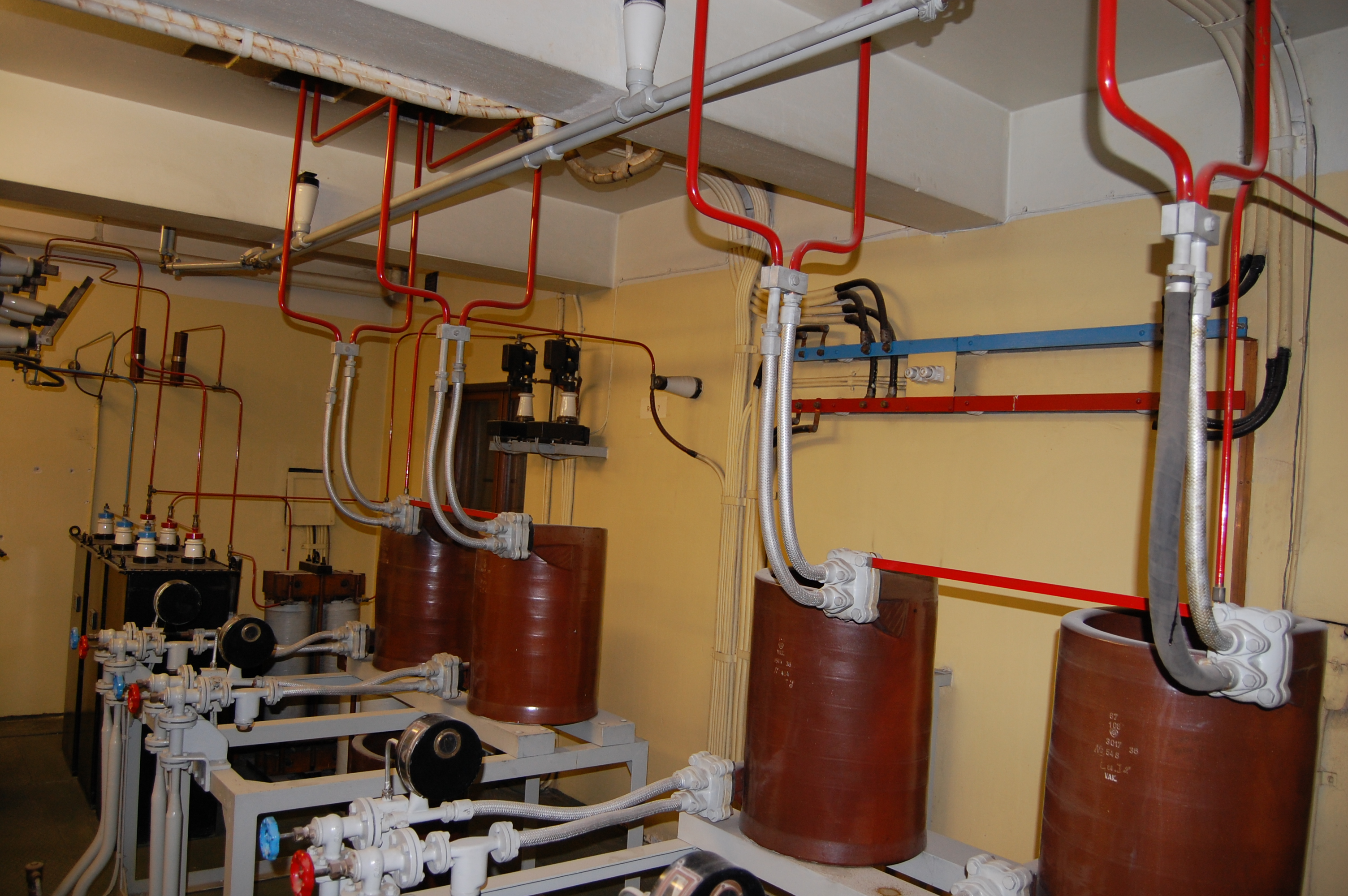 Cooling water distribution at Bergen kringkaster, Askøy, Norway